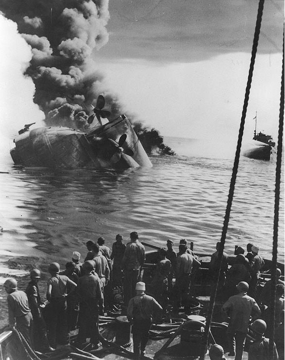 Sinking in Ulithi anchorage after she was hit by a Japanese suicide torpedo, 20 November 1944.